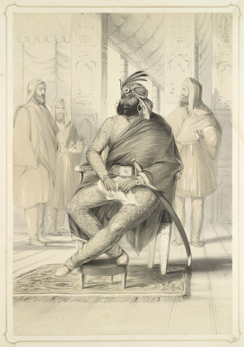 Artist: Eden, Emily Medium: Lithograph Date: 1844 This lithograph was made from plate 2 of Emily Eden's 'Portraits of the Princes and People of India'. Ranjit Singh, the Sikh ruler, died having reigned for nearly four decades and did not designate a successor. His sons from different wives jockeyed for power together with the Hindu Dogras and Sikh nobles. After much turbulence Sher Singh was enthroned. Eden wrote: "Maharaja Shere Singh (present Sovereign of the Sikhs) and son of Runjeet came to power early 1841." Sher Singh had served honourably in his father's campaigns and shown "a peculiar friendship and regard for European officers in the Sikh services". A fine figure with a courteous personality, Sher Singh was sketched by many foreign visitors to his court. He did not escape the Sikh intrigues for long, however, and was murdered by other chieftains in 1843. During his brief reign, foreign policy was dictated by the British.